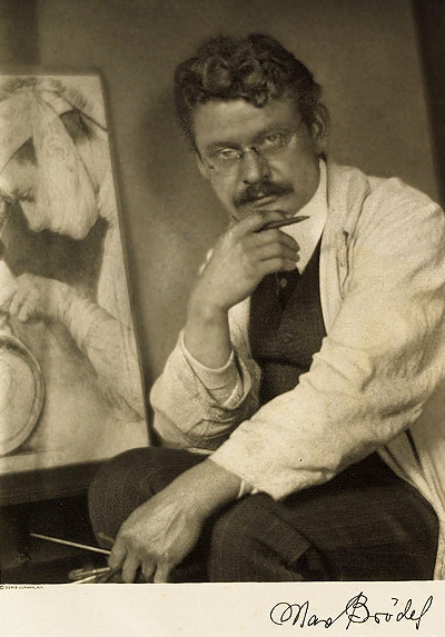 Max Brödel (1870-1941)